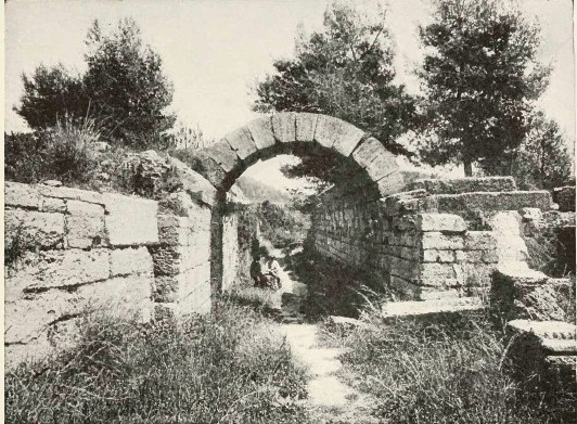 Buried cities (1922) Author: Hall, Jennie, 1875-1921 Subject: Mycenae; Pompeii (Extinct city); Olympia Publisher: New York : The Macmillan Company Possible copyright status: NOT_IN_COPYRIGHT Language: English Call number: 408227 Digitizing sponsor: MSN Book contributor: New York Public Library Collection: americana